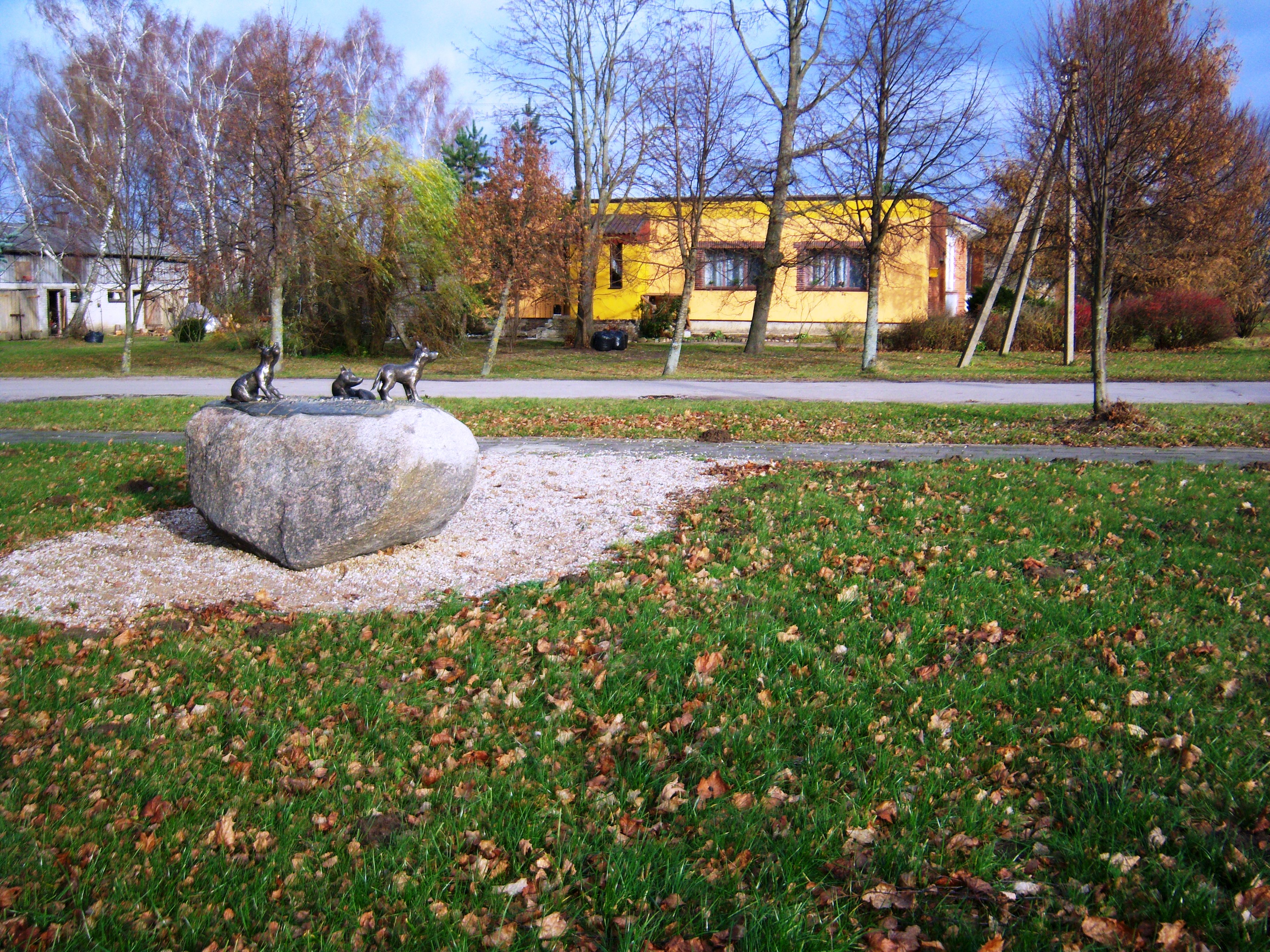 Vilkyčiai stone, Šilutė District, Lithuania